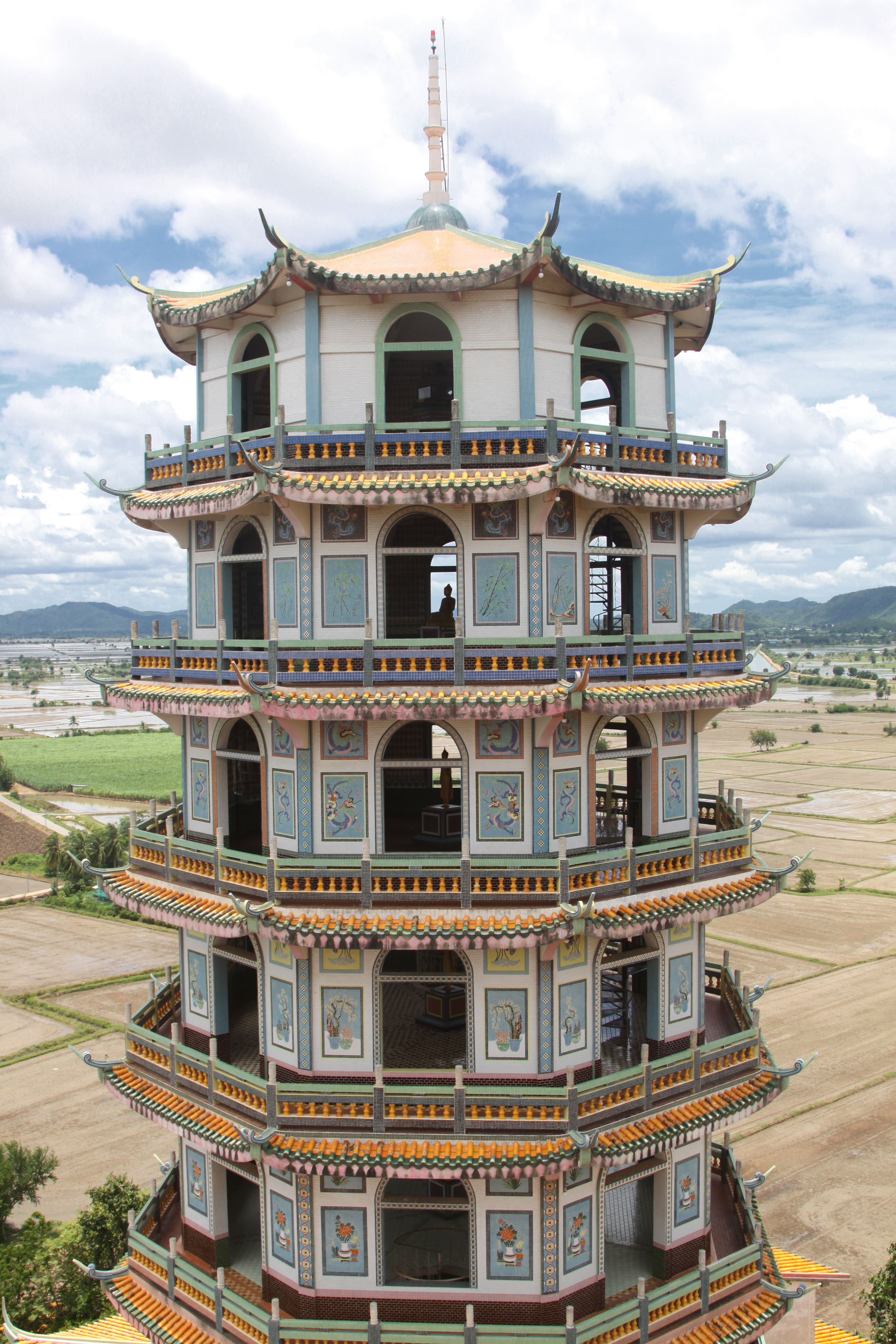 Pagode in Kanchanaburi, southern Thailand. Every floor contains a buddha statue.